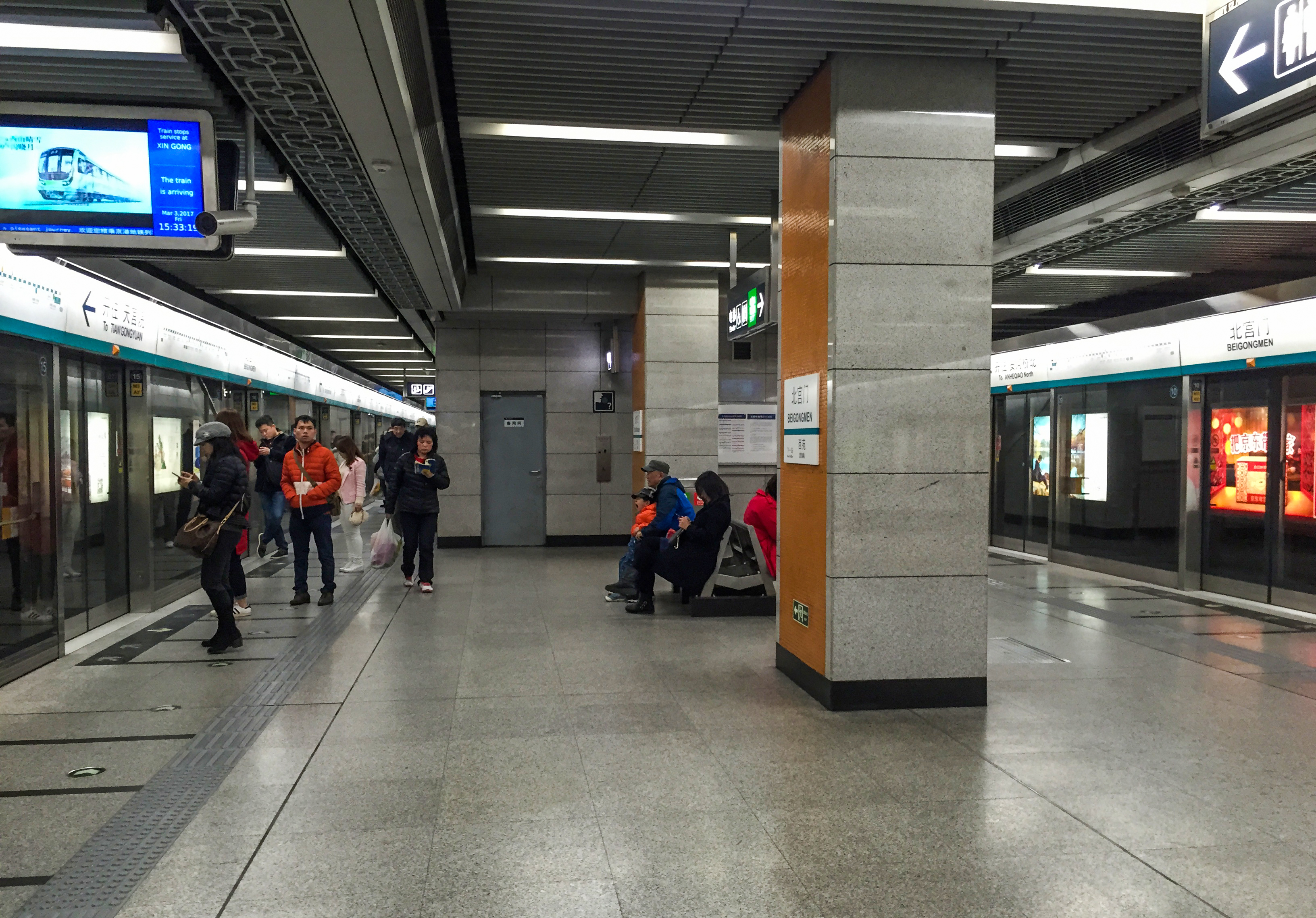 For some places in backhill, this station is easier to access.